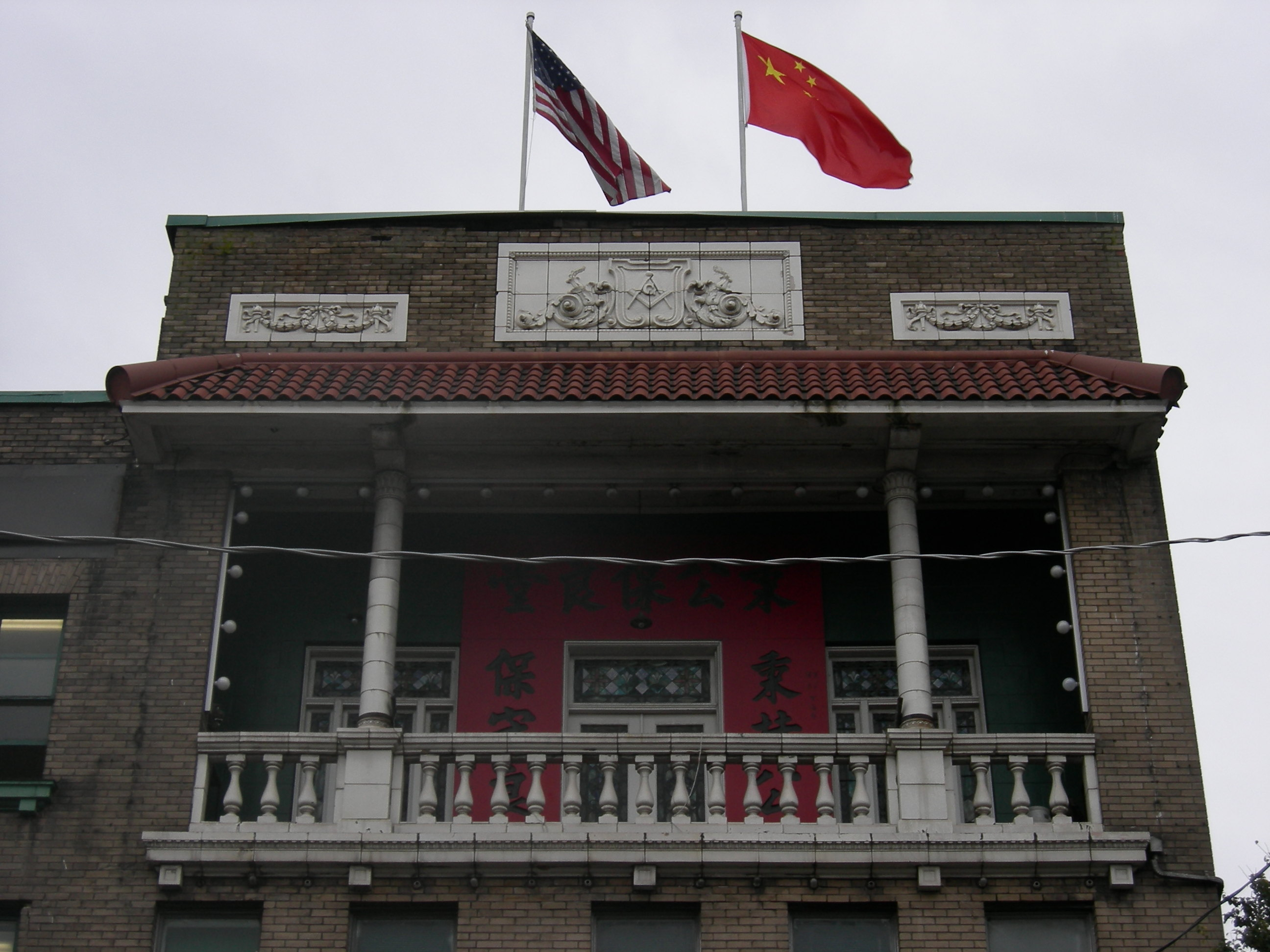 Upper portion of Bing Kung Association building, International District, Seattle, Washington. Note that there is a Masonic symbol just below the roof.